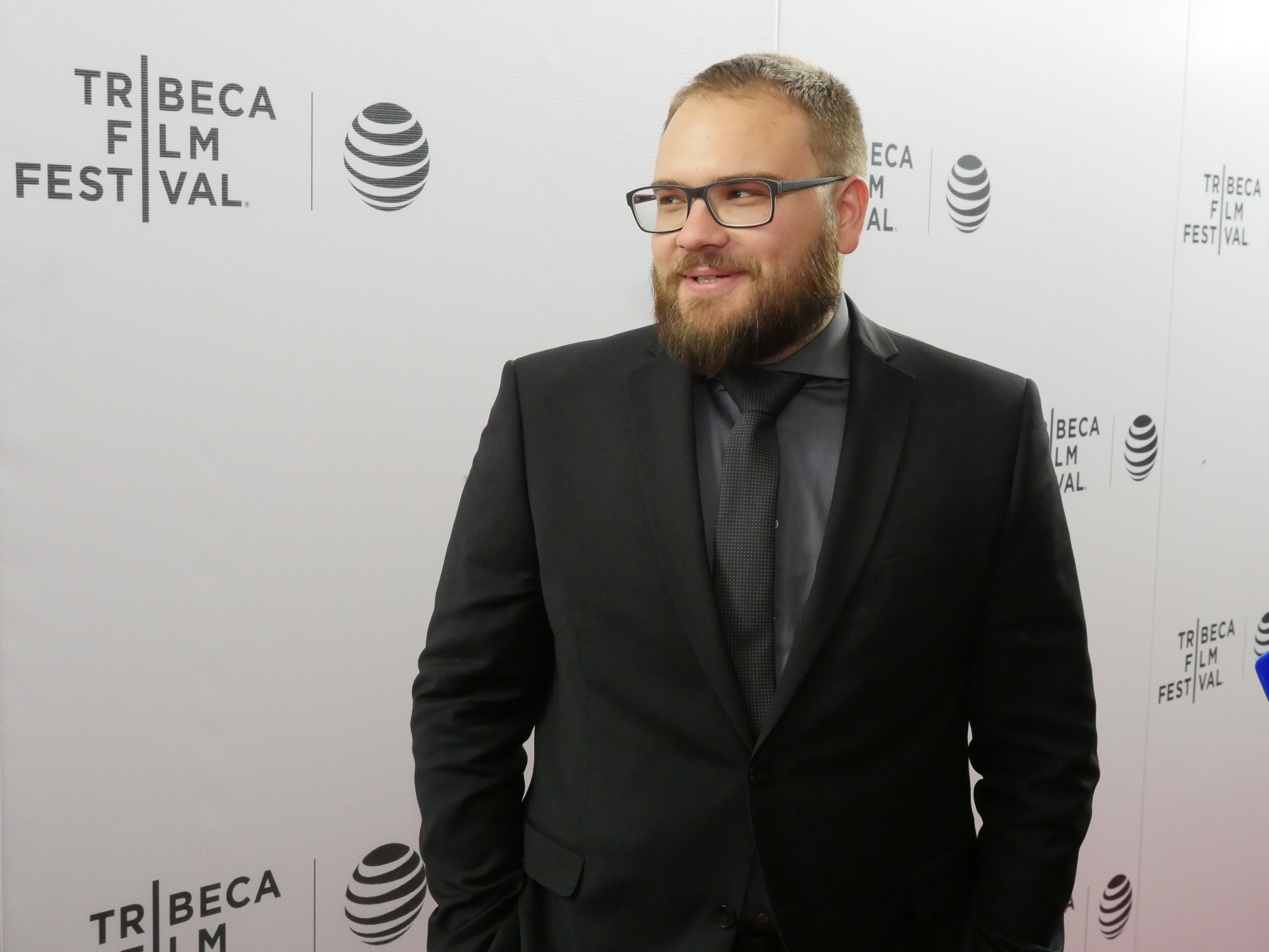 Ziga Virc na rdeci preprogi pred svetovno premiero filma na Tribeca Film Festivalu v New Yorku 16.4. 2016